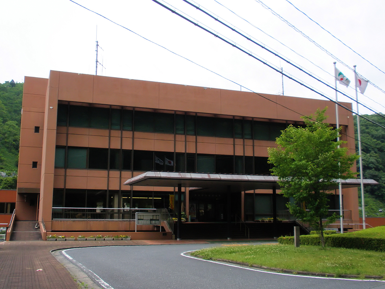 Misaki town office Asahi branch (Former Asahi town office)